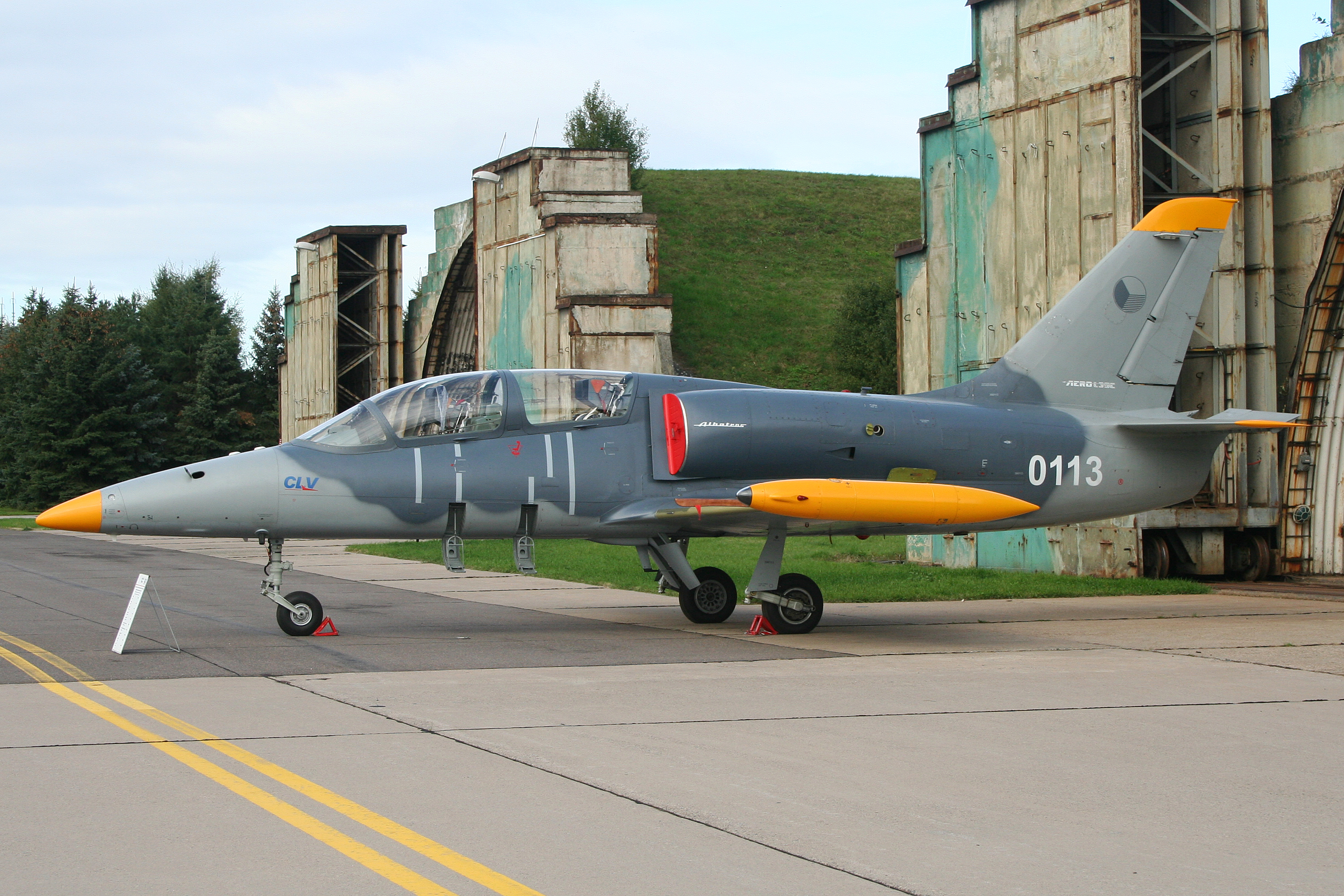 The entire CLV fleet of L-39s is currently waiting to be re-engined, following some serious incidents with early L-39s across the globe. Pardubice, Czech Republic. 08-10-2012